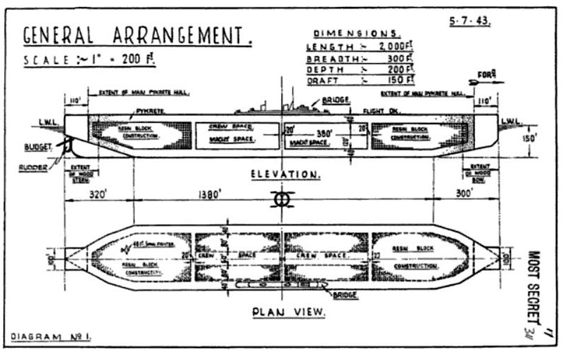 Habakukk aircraft